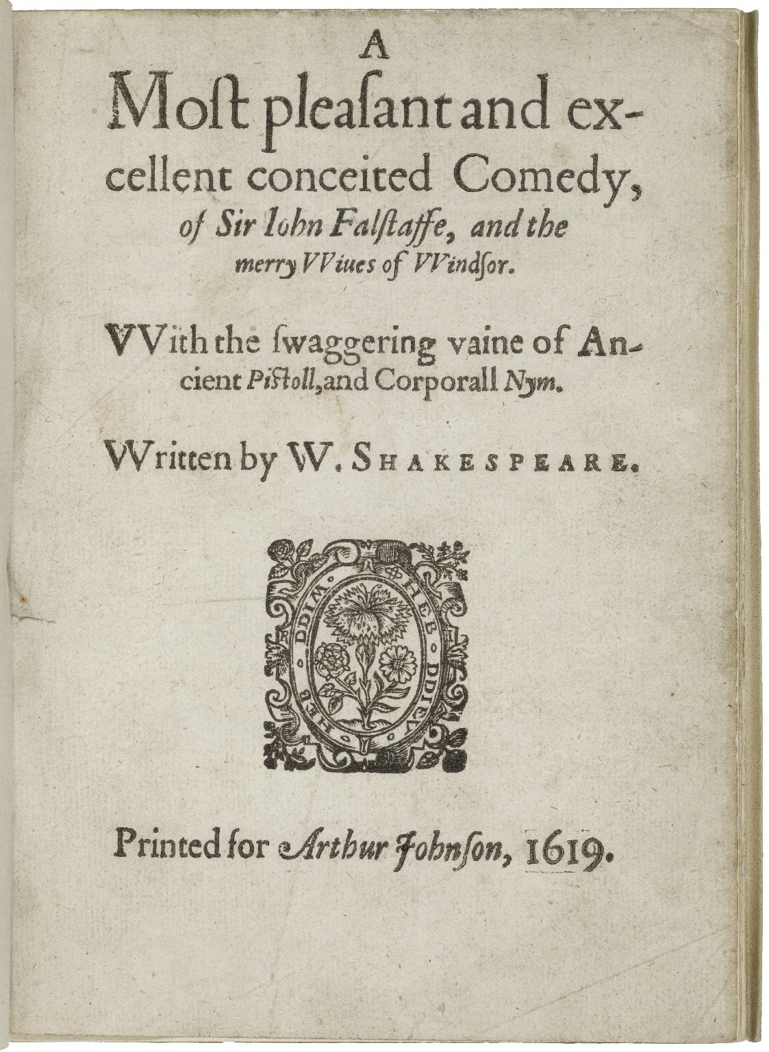 The title page of the 1619 quarto (from the False Folio): A most pleasant and excellent conceited comedy, of Sir John Falstaffe, and the merry wiues of Windsor.